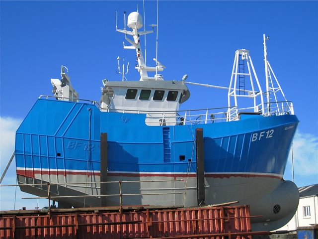 Macduff: High and dry A new fishing boat nears completion in the boatyards at Macduff.